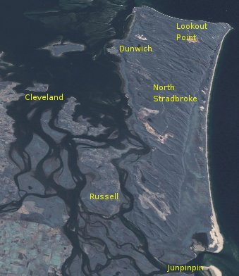 Satellite Image southern Moreton Bay Queensland Australia.jpg. Satellite view. Landsat image. The view is at an angle from the south so the island appears a little shorter than usual.